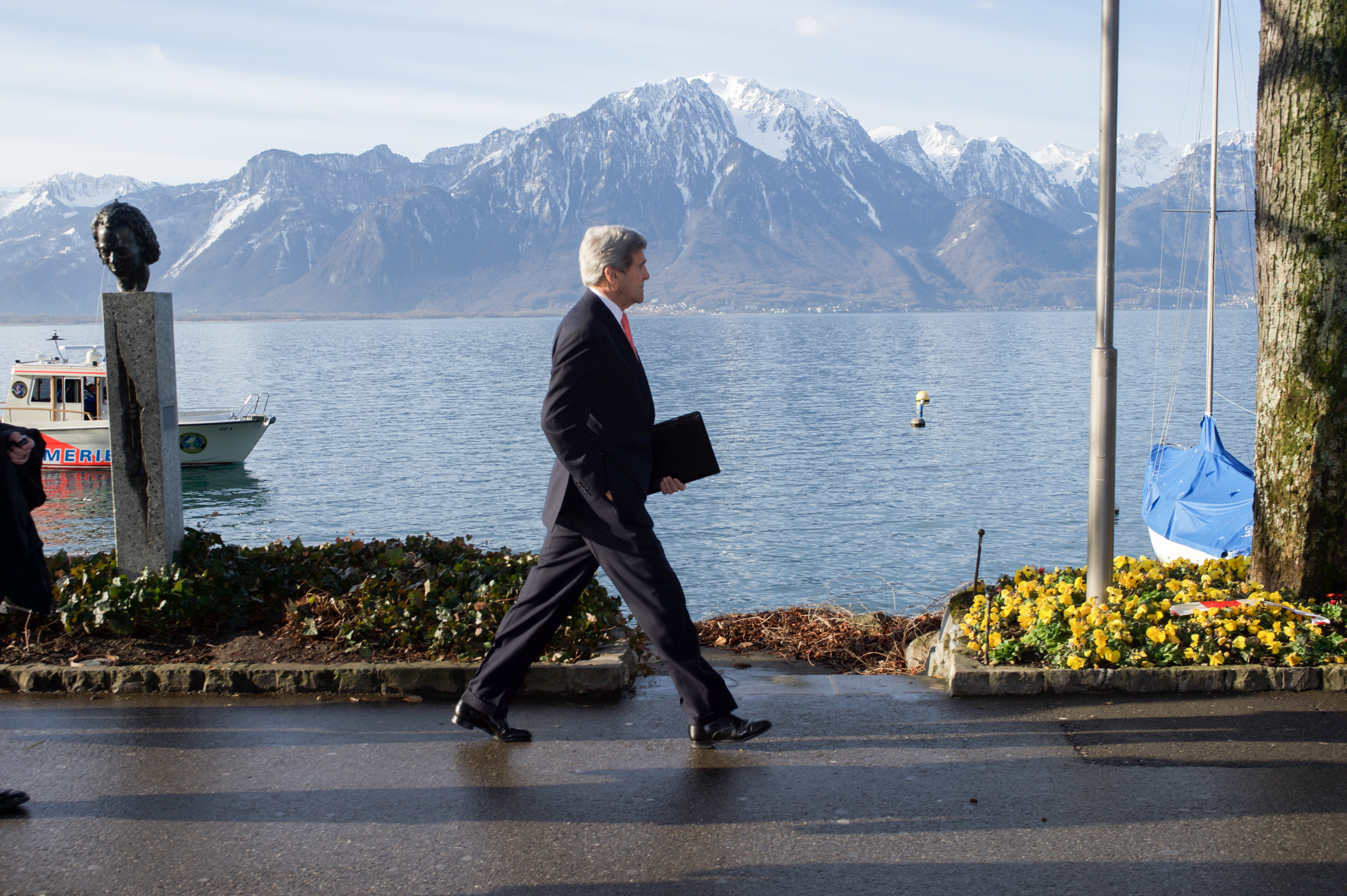 U.S. Secretary of State John Kerry passes a statue of jazz legend Miles Davis on March 3, 2015, as he walks along Lake Geneva in Montreux, Switzerland, scene of the annual Montreux Jazz Festival, before resuming negotiations with Iranian Foreign Minister Javad Zarif about the future of his country's nuclear program. [State Department photo/ Public Domain]